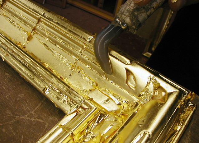 Picture of a gilded frame ready to be burnished with an agate tool.Juangonzalez64 04:28, 16 December 2006 (UTC)